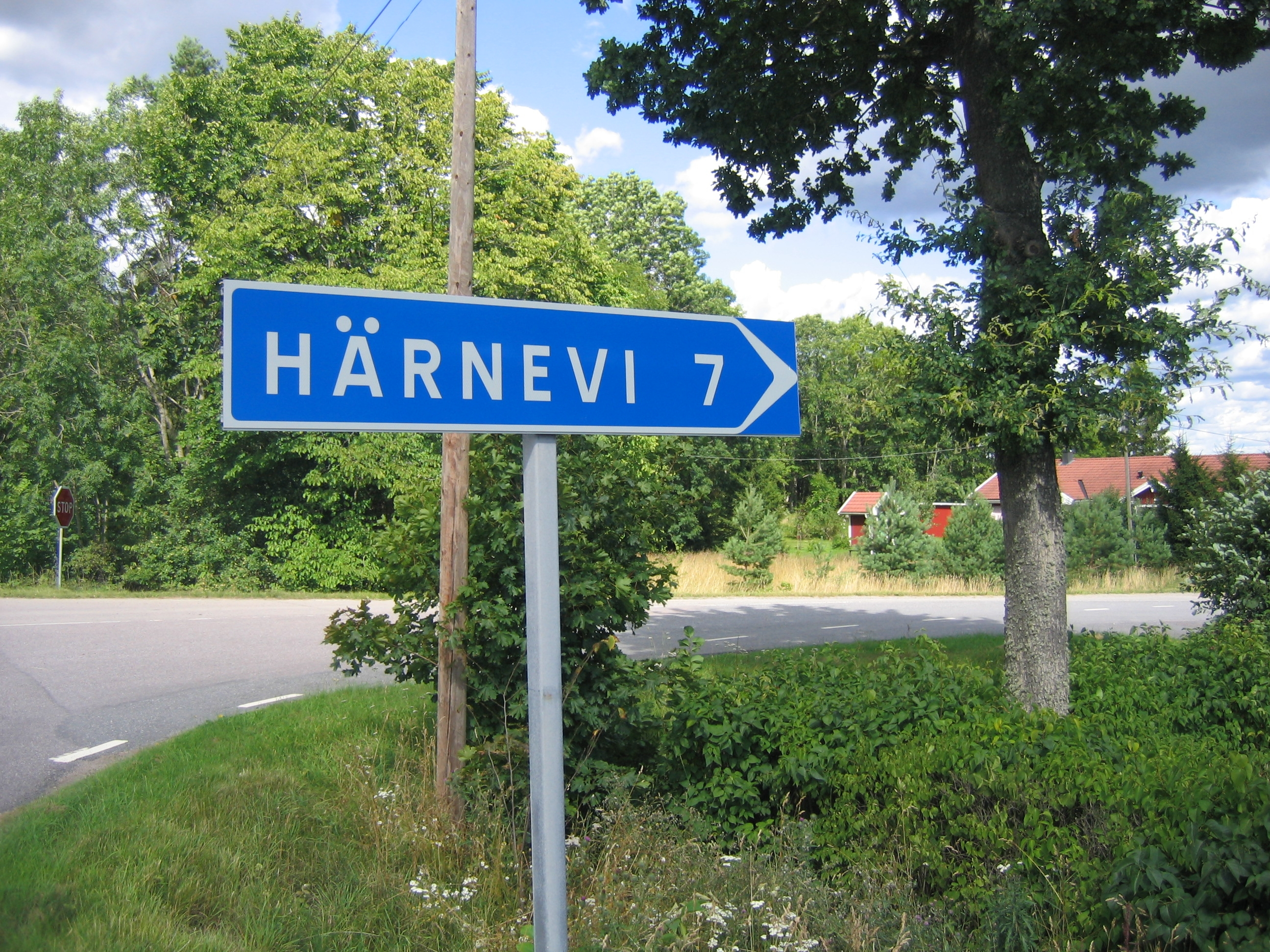 road sign